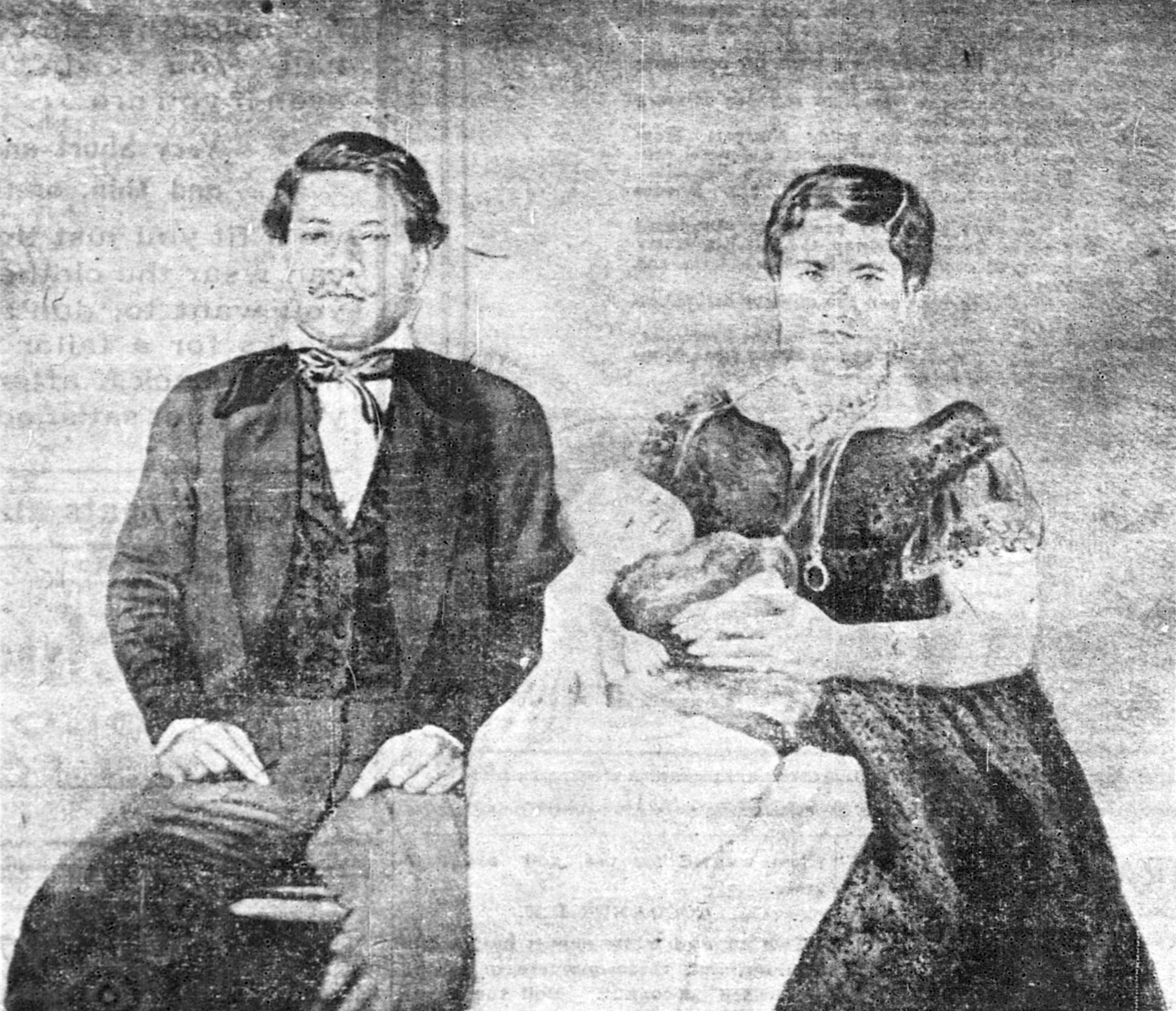 Prince Albert as an infant from a picture hanging on the walls of the home of the late Prince Albert Kunuiakea. Made about 1853.